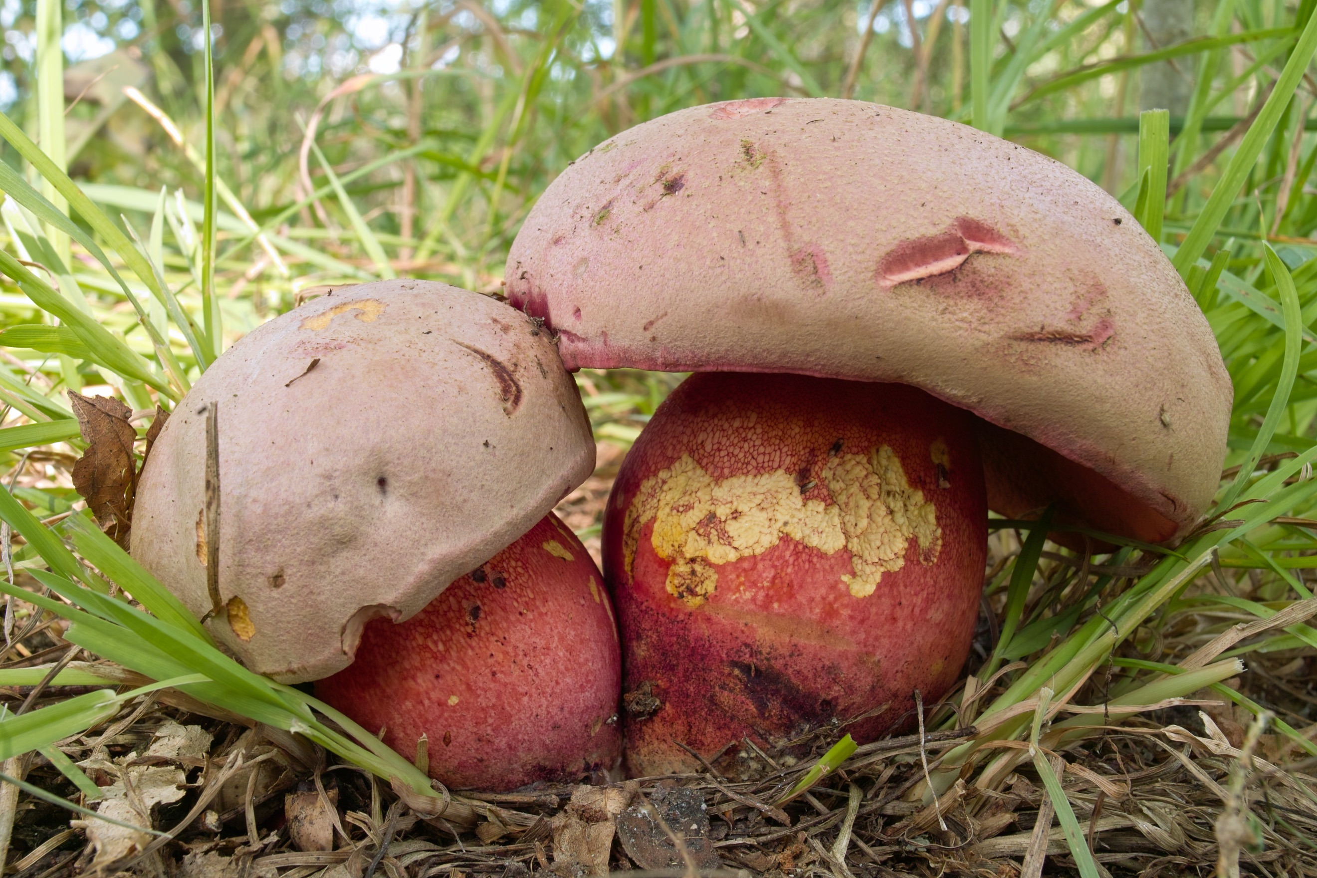 Boletus legaliae, Luční, Czech Republic